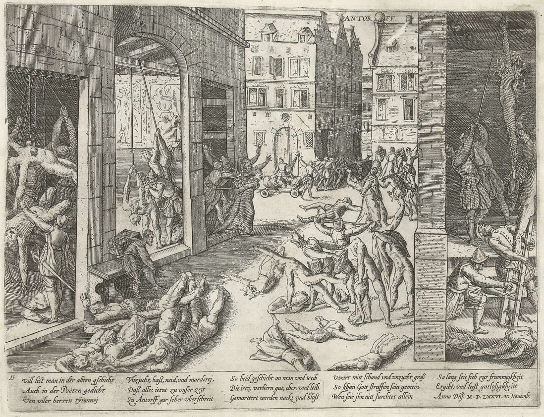 Antwerp sack by spanish 1576.